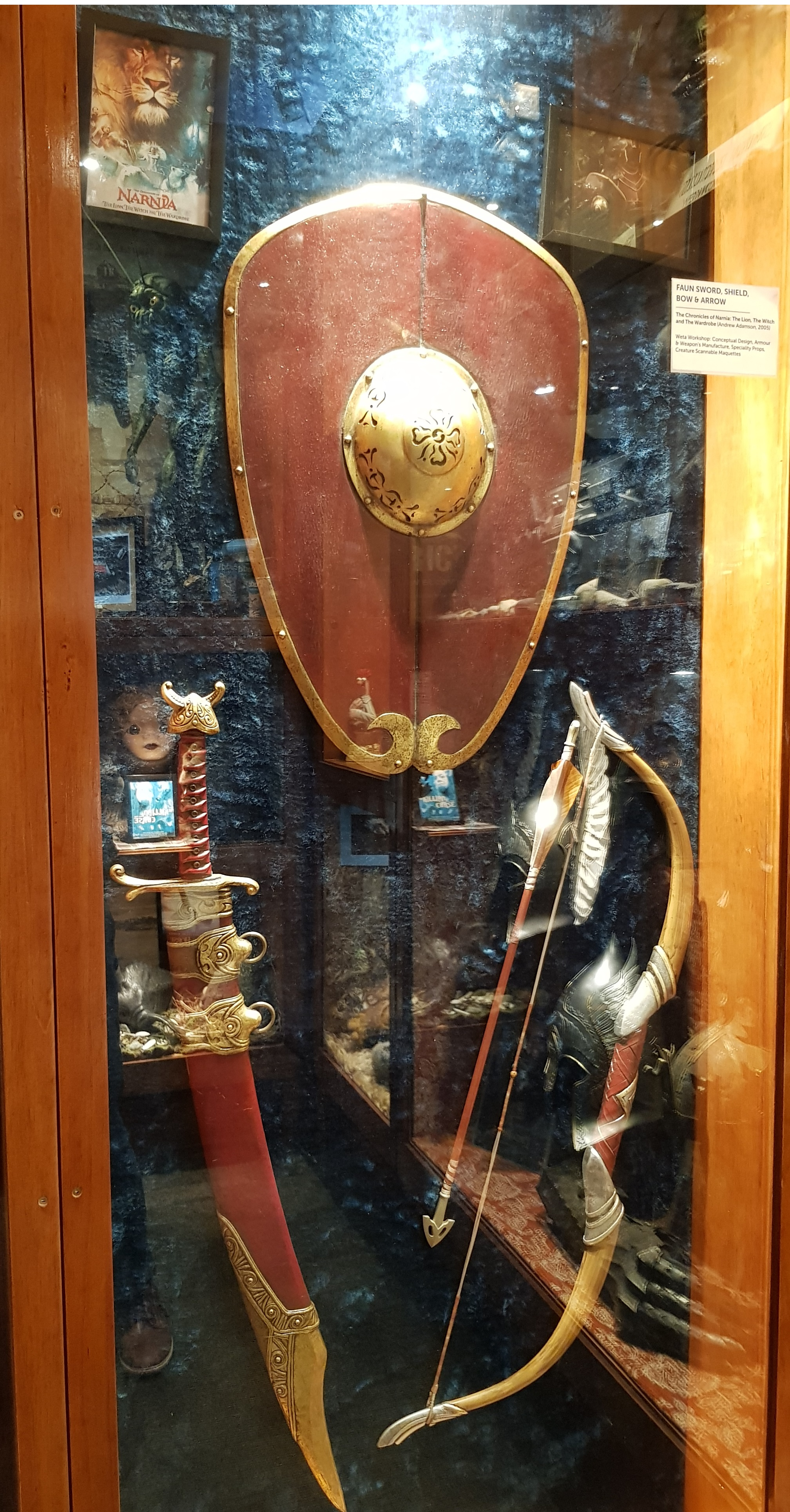 Weapons from The Chronicles of Narnia: The Lion, the Witch and the Wardrobe. They are found at the Weta Cave in Wellington, New Zealand.